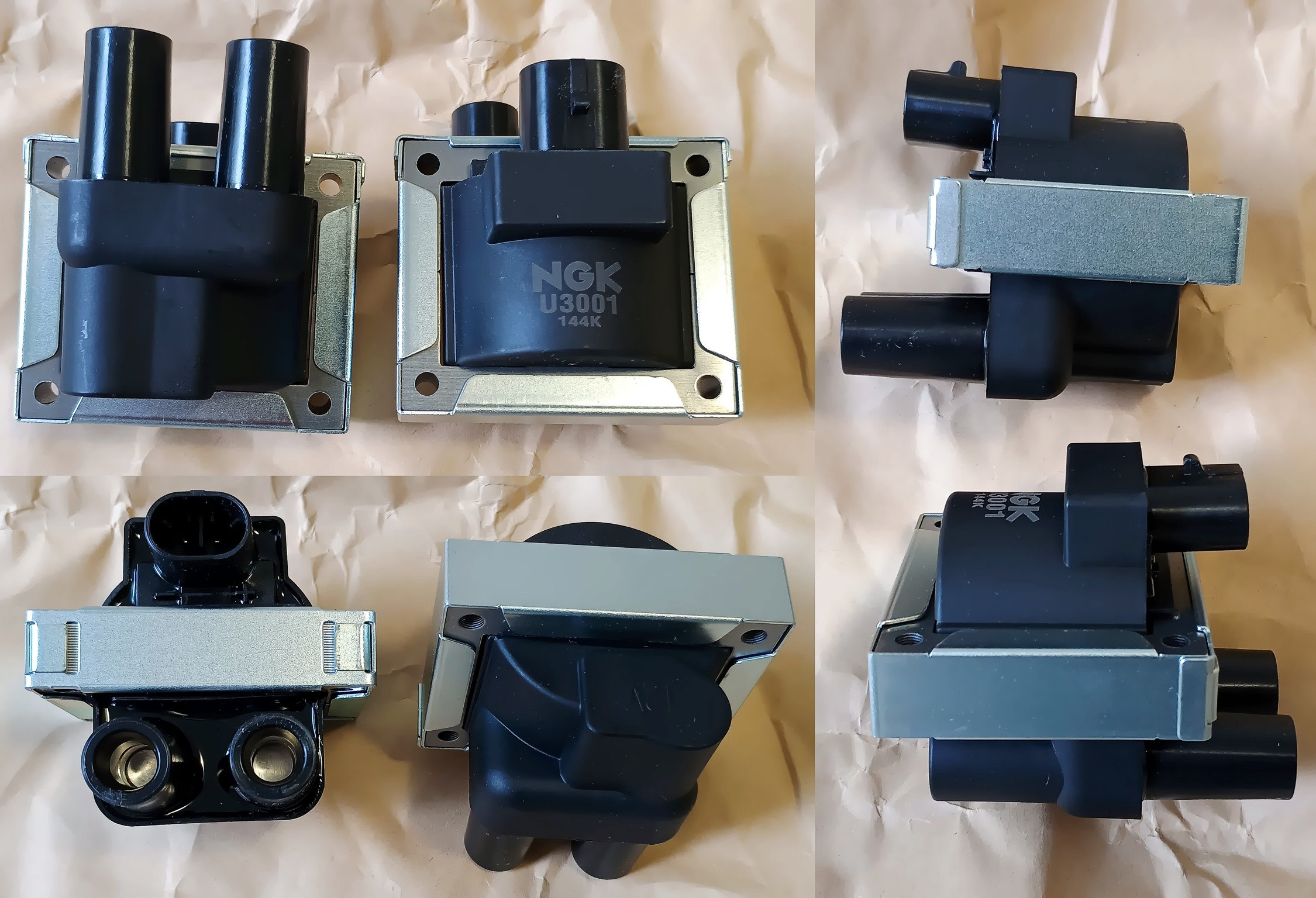 Ignition coil-type block and lost discharge, seen in different angles, in the left picture you can see the second coil.